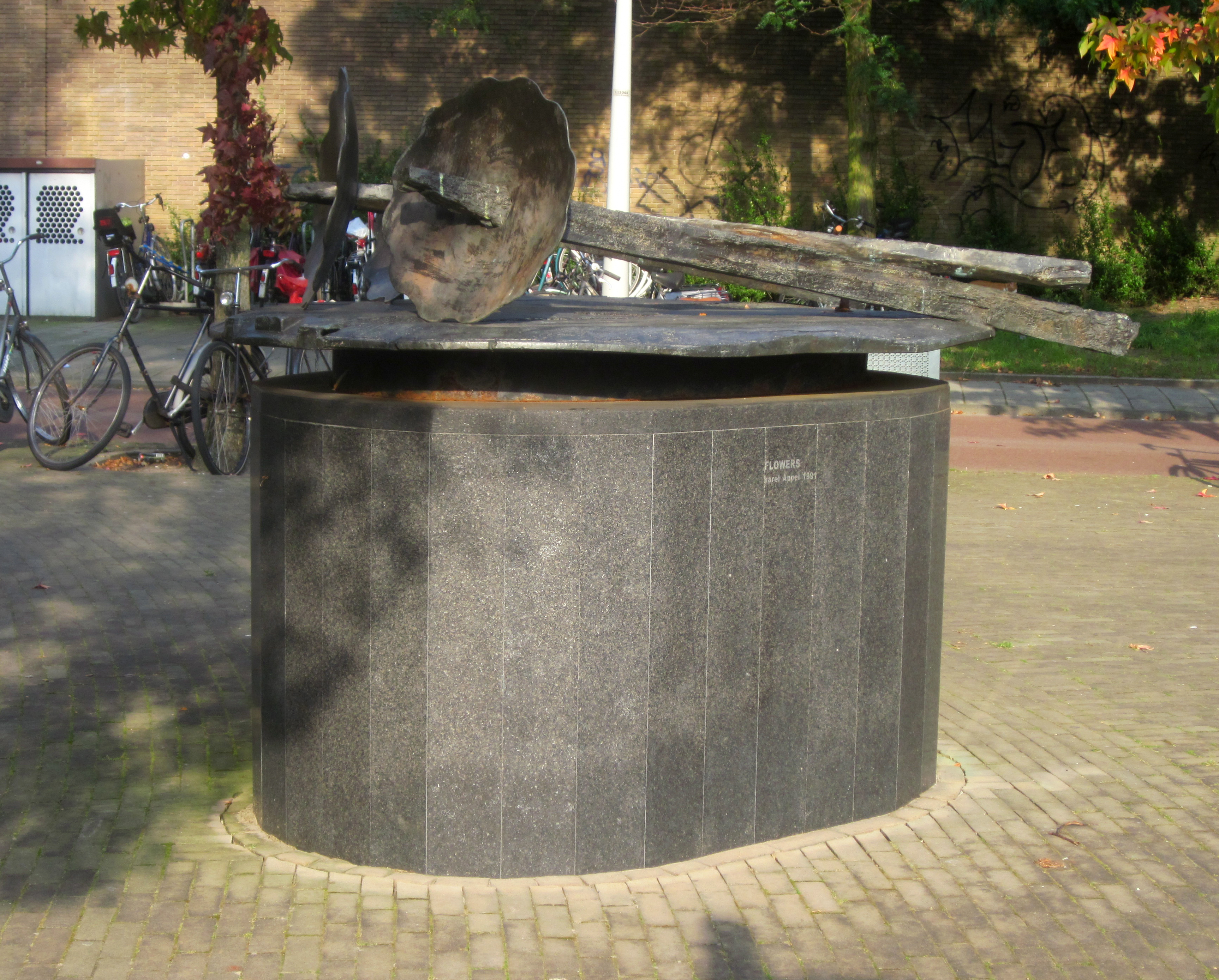 A damaged sculpture "The Flowers" by Karel Appel in 1991. Placed at the Oosterspoorplein in Amsterdam in 2002. There is supposed to be an uprising flower as well see [1]